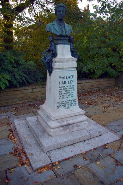 Bust of Wallace Hartley "Bandmaster of the RMS Titanic who perished in the foundering of that vessel, April 15th 1912. Erected by voluntary contributions to commemorate the heroism of a native of this town". This memorial stands outside the Methodist Church in Albert Street where Hartley began his musical career. After the iceberg struck, the band continued to play to calm the passengers seeking to escape the sinking ship; not one of the musicians was saved.